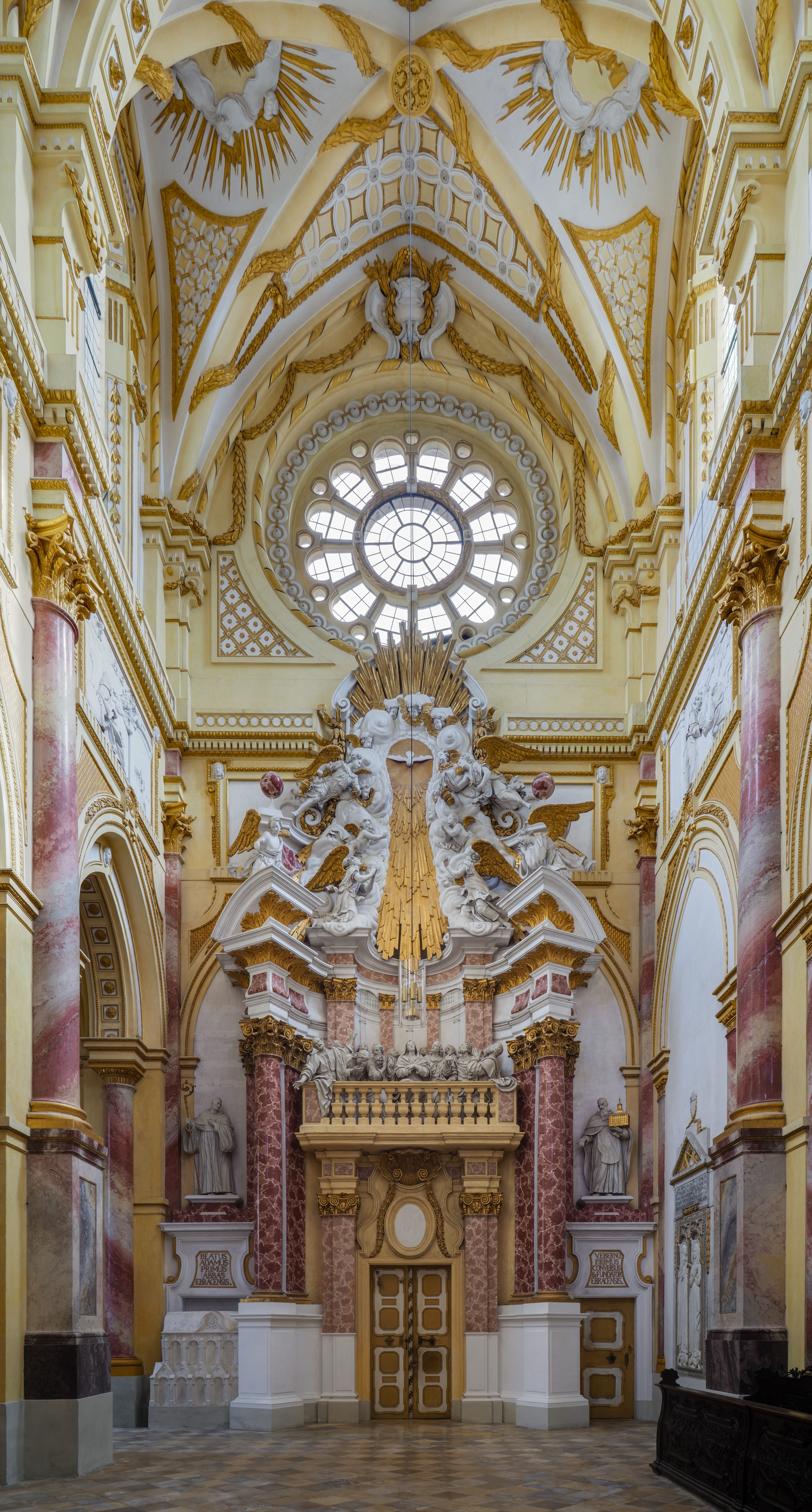 Portal with the representation of the Pentecost miracle in the abbey church in Ebrach made by J. B. Brenno 1696/1697